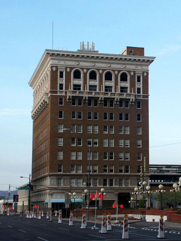 The Luhrs Building in Downtown Phoenix, Arizona. The 1924 building was designed by the architectural firm of Trost & Trost. Credits Photo by camerafiend.